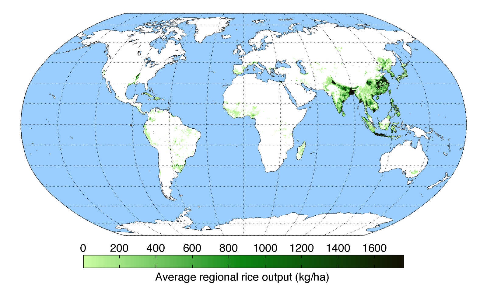 Map of rice production (average percentage of land used for its production times average yield in each grid cell) across the world compiled by the University of Minnesota Institute on the Environment with data from: Monfreda, C., N. Ramankutty, and J.A. Foley. 2008. Farming the planet: 2. Geographic distribution of crop areas, yields, physiological types, and net primary production in the year 2000. Global Biogeochemical Cycles 22: GB1022